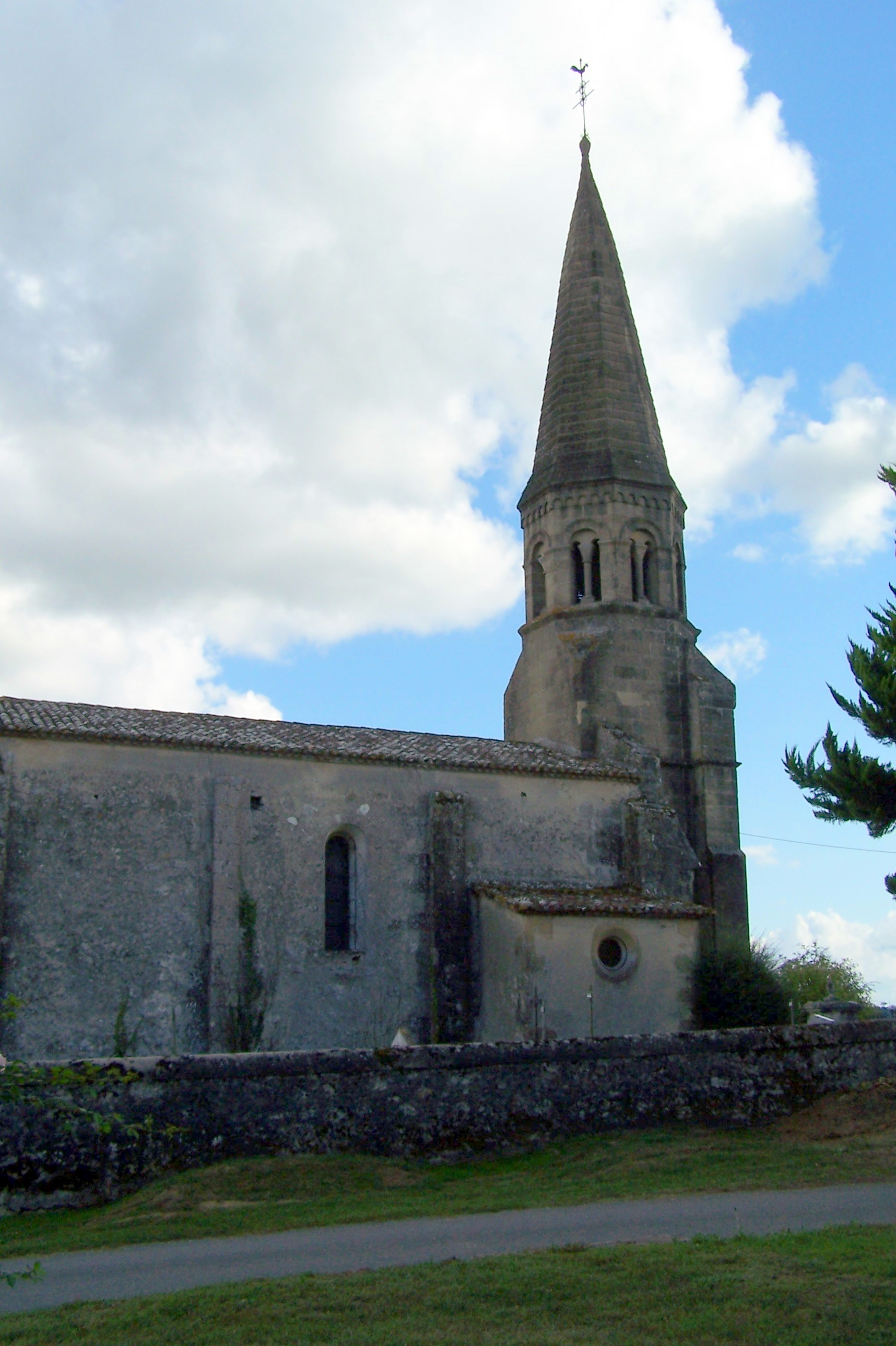 Church Saint-Cibard of Coutures (Gironde, France)